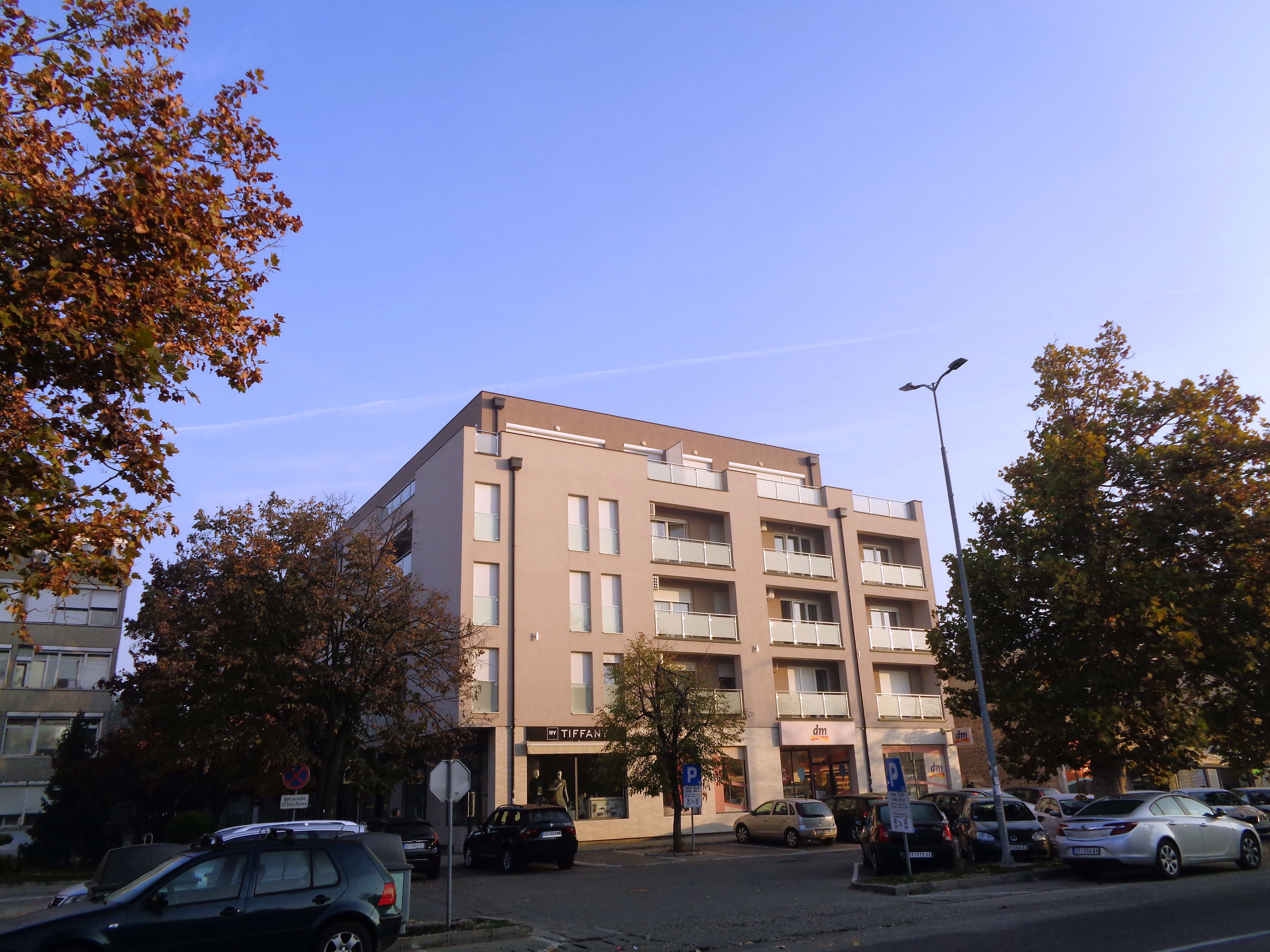 Stara Pazova, Serbia, residential and commercial building in the center of town